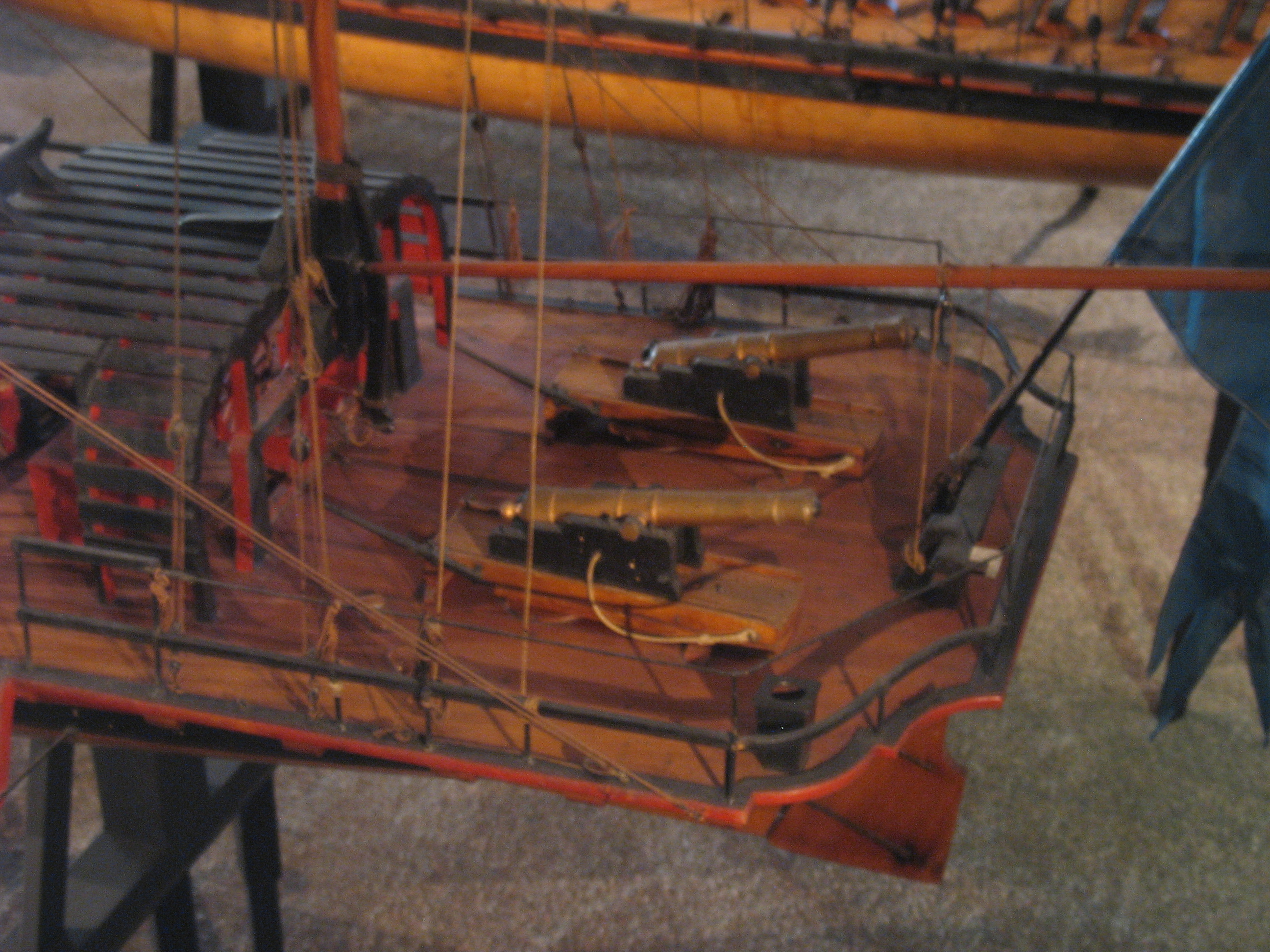 Contemporary model of the pojama Brynhilda (built 1776) at the Maritime Museum in Stockholm. Scale 1:16.